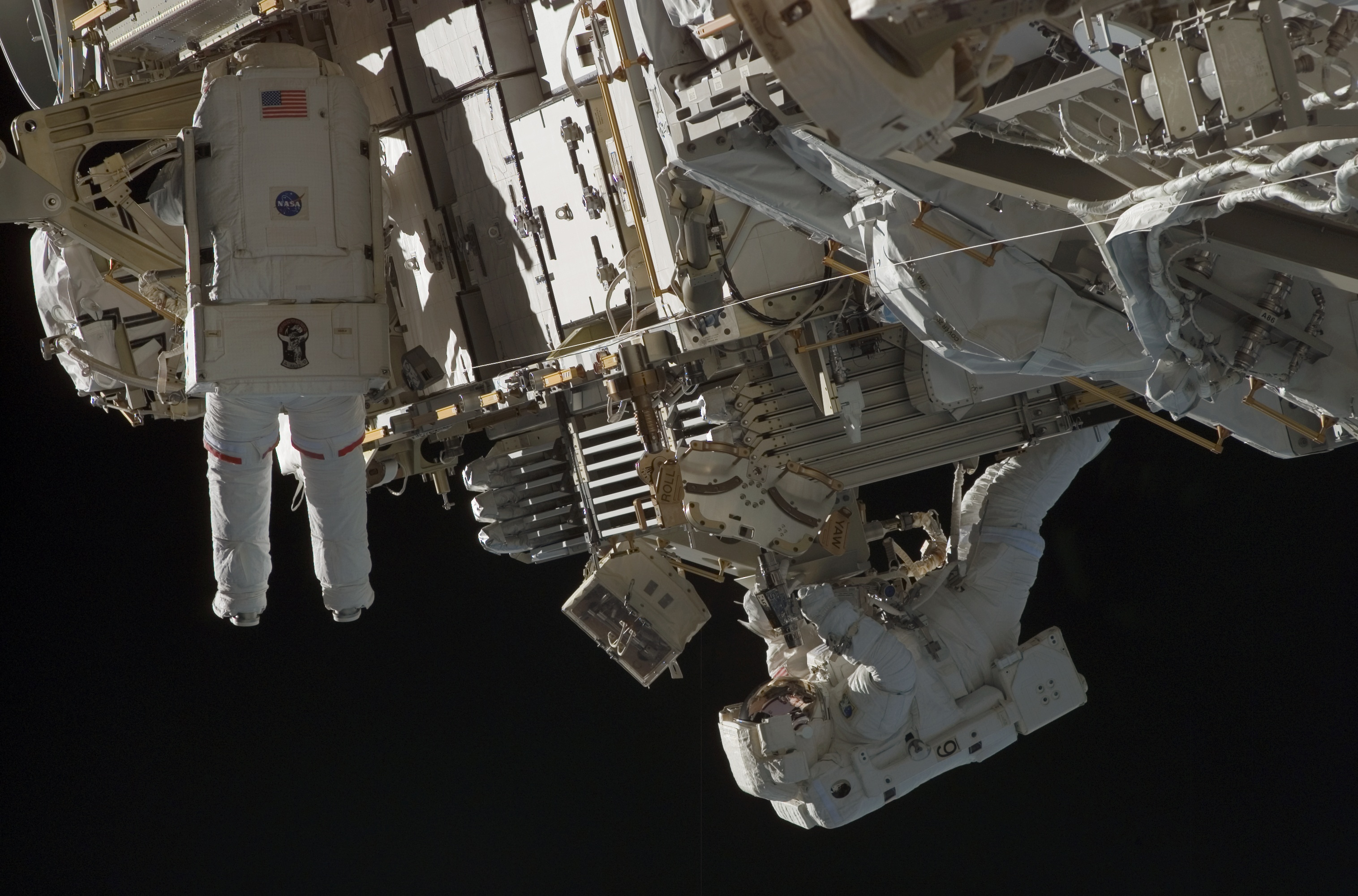 Astronauts Jim Reilly (left) and Danny Olivas (bottom right), both STS-117 mission specialists, participate in the mission's first session of extravehicular activity, as construction resumes on the International Space Station